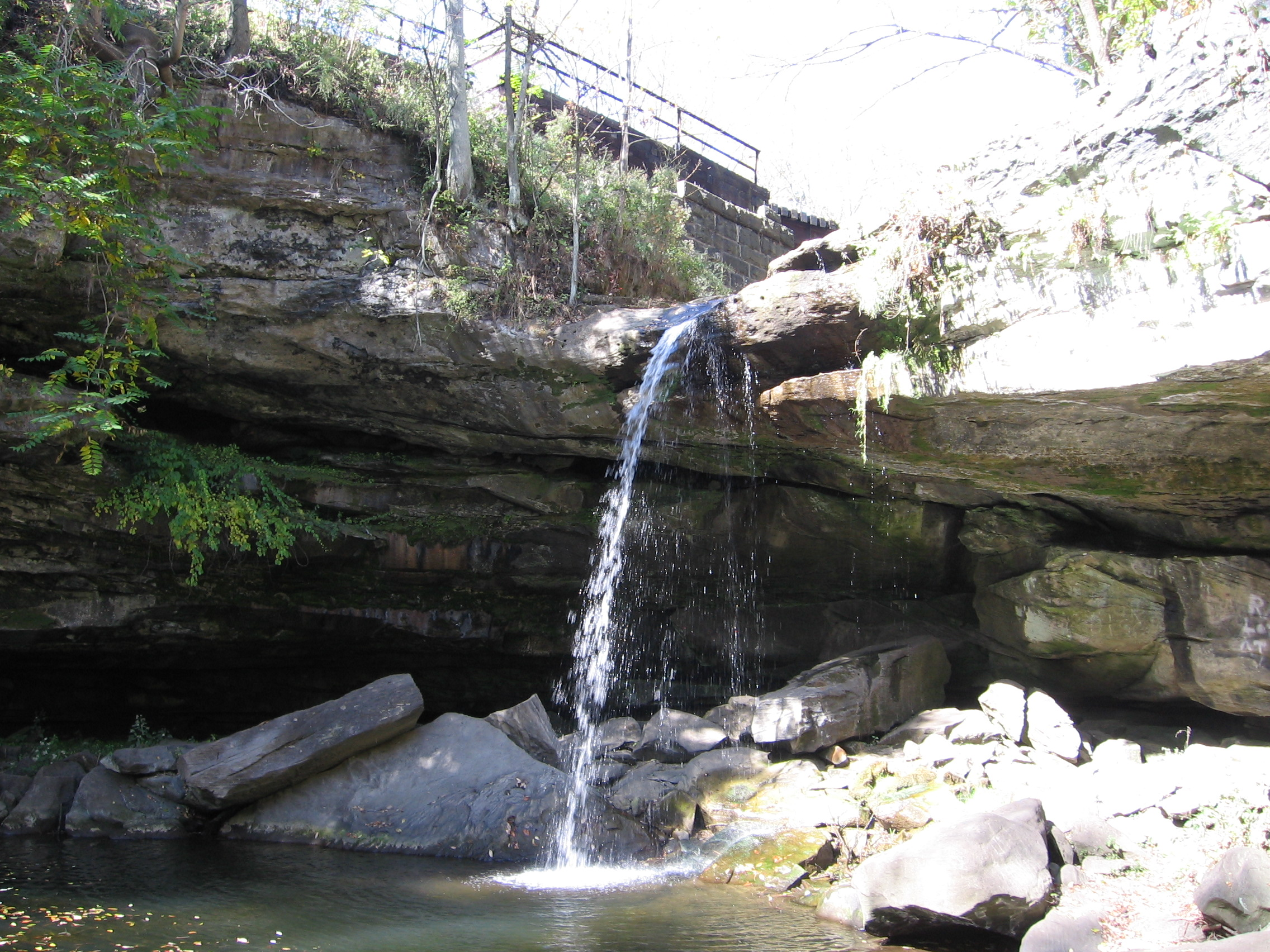 Homewood Falls, also known as Buttermilk Falls is located east of Homewood Borough.